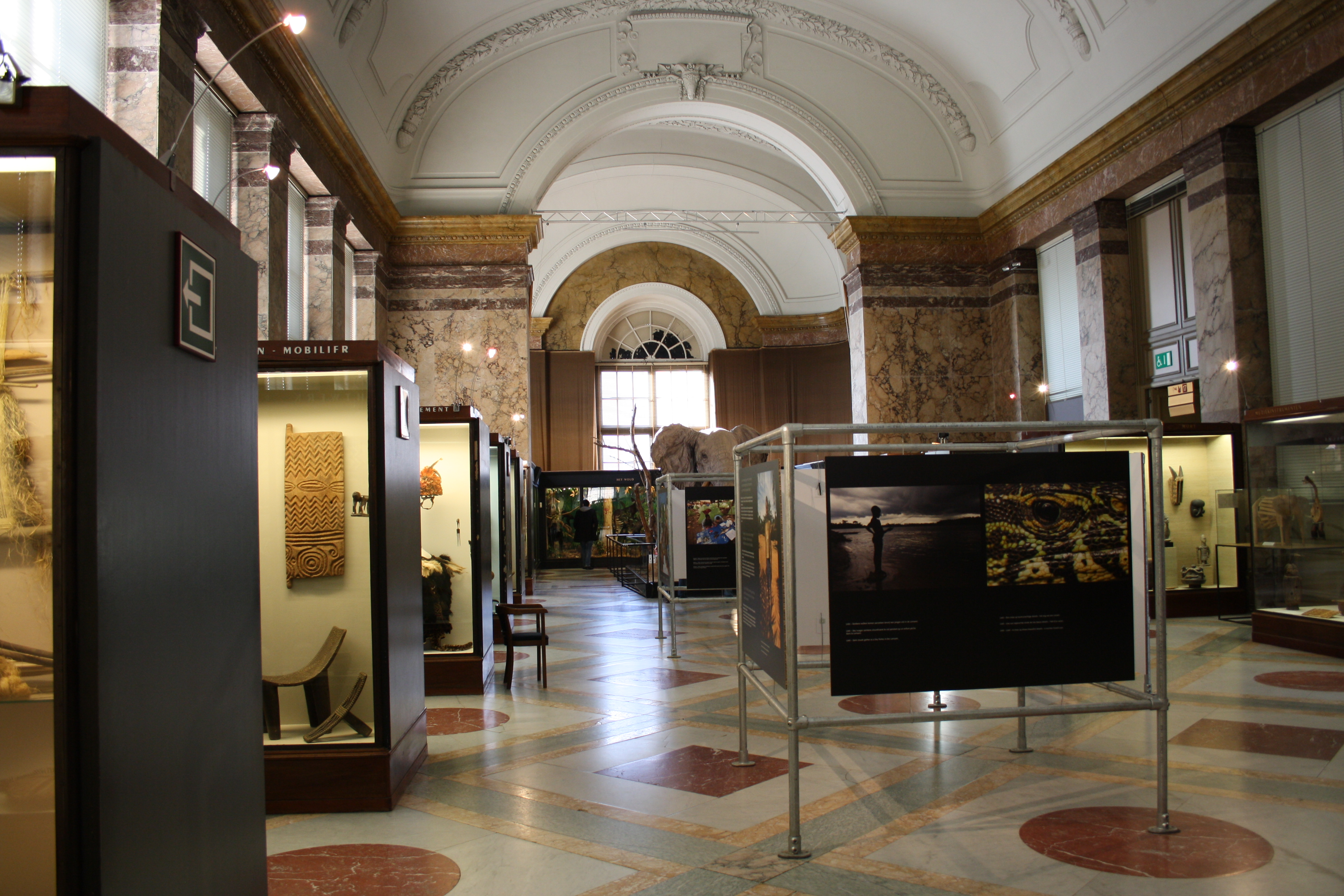 Interior of the Royal Museum for Central Africa, Tervuren, Belgium.